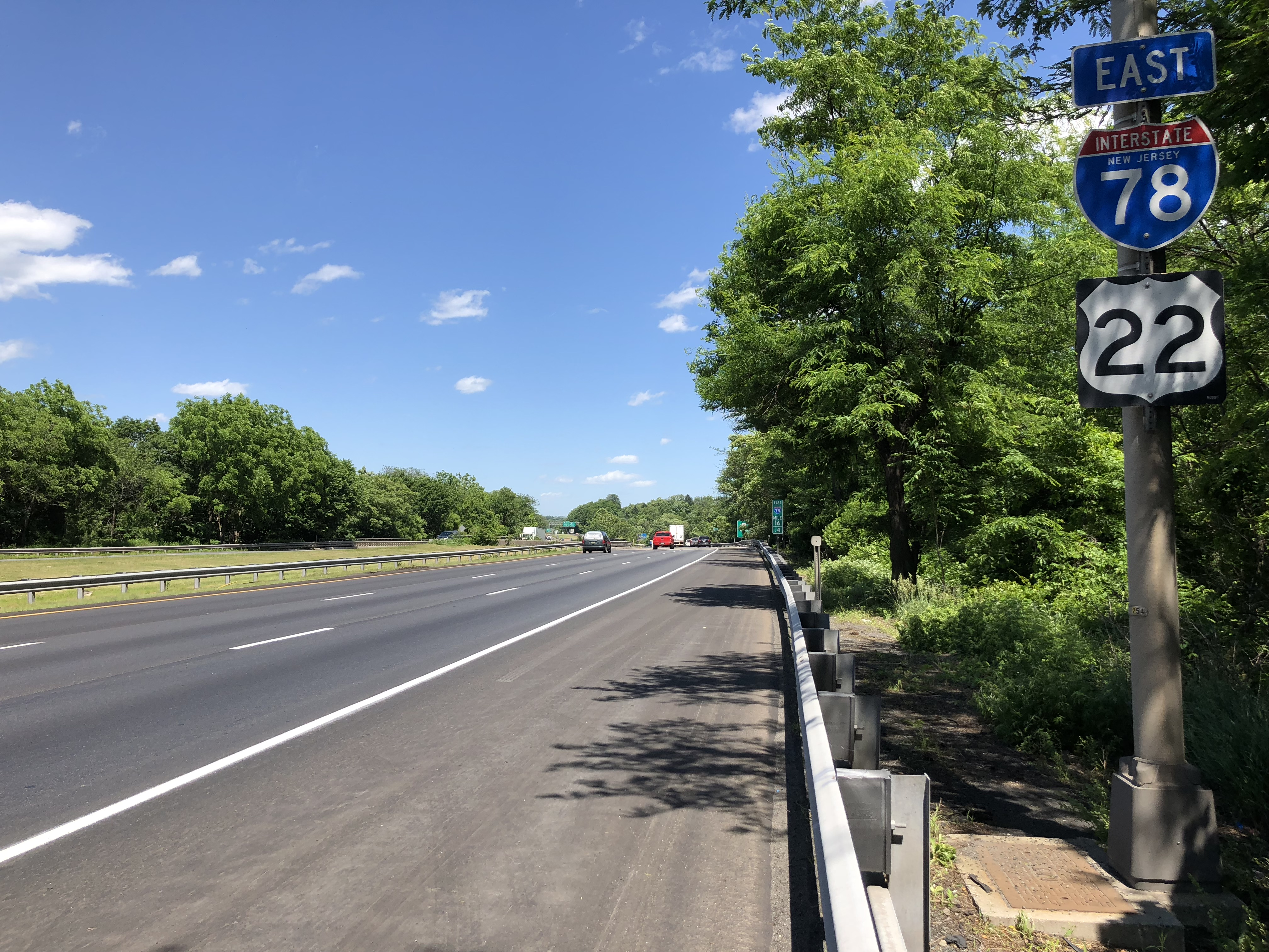 View east along Interstate 78 and U.S. Route 22 (Phillipsburg-Newark Expressway) between Exit 15 and Exit 16 in Clinton, Hunterdon County, New Jersey